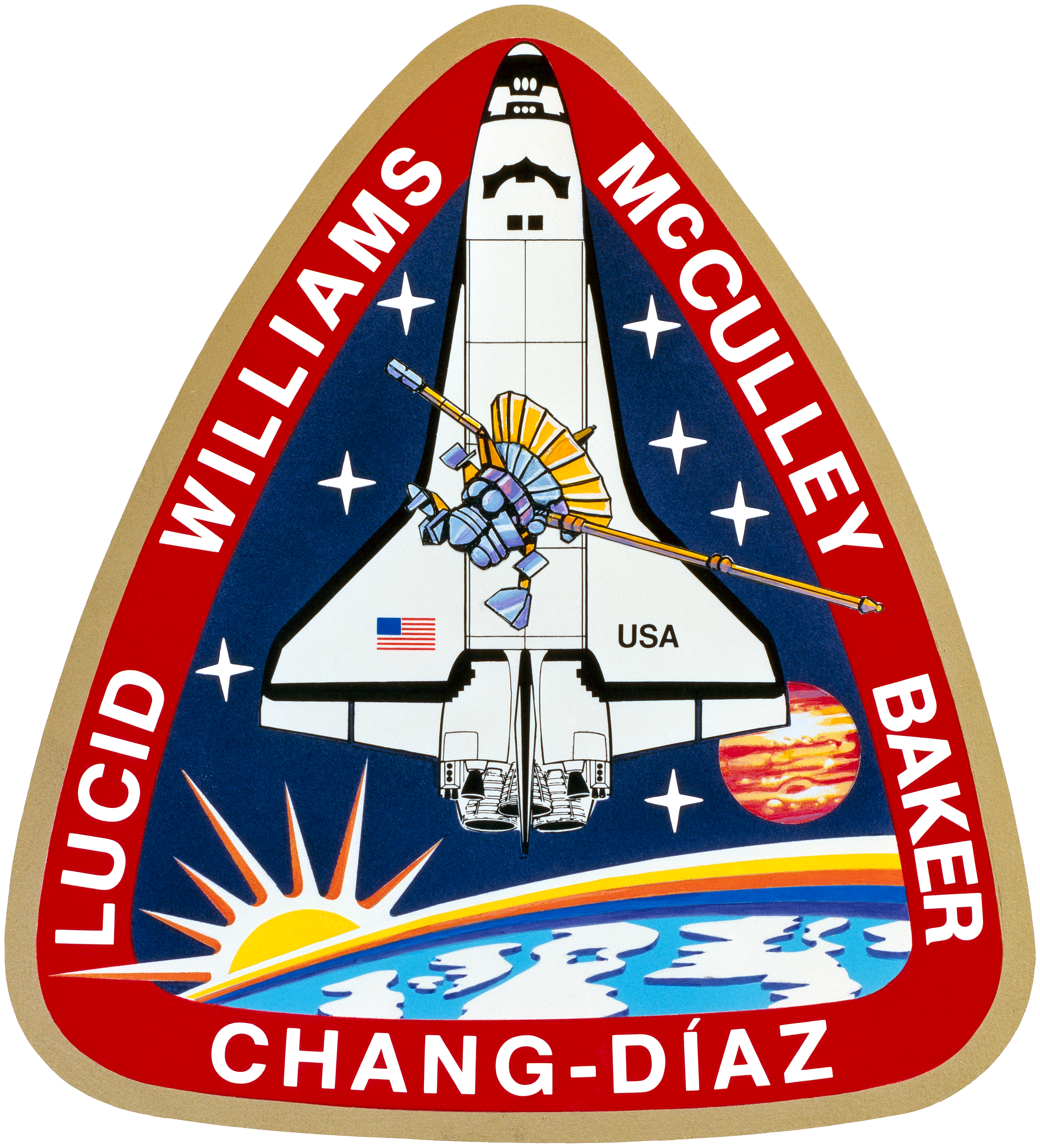 STS-34 Mission Insignia Description: The triangular shape of the STS-34 crew patch represents forward motion and the entering into new frontiers of science, engineering and technology. The Galileo spacecraft overlaying the orbiter symbolizes the joining together of both manned and unmanned space programs in order to maximize the capabilities of each. The crewmembers, who designed the patch, use a sunrise stretching across Earth's horizon to depict expansion of our knowledge of the solar system and other worlds, leading to a better understanding of our own planet. In the distance, Jupiter, a unique world with many unknowns, awaits the arrival of Galileo to help unlock its secrets. Meanwhile, the Space Shuttle remains in Earth- orbit, continuing to explore the near-Earth environment.